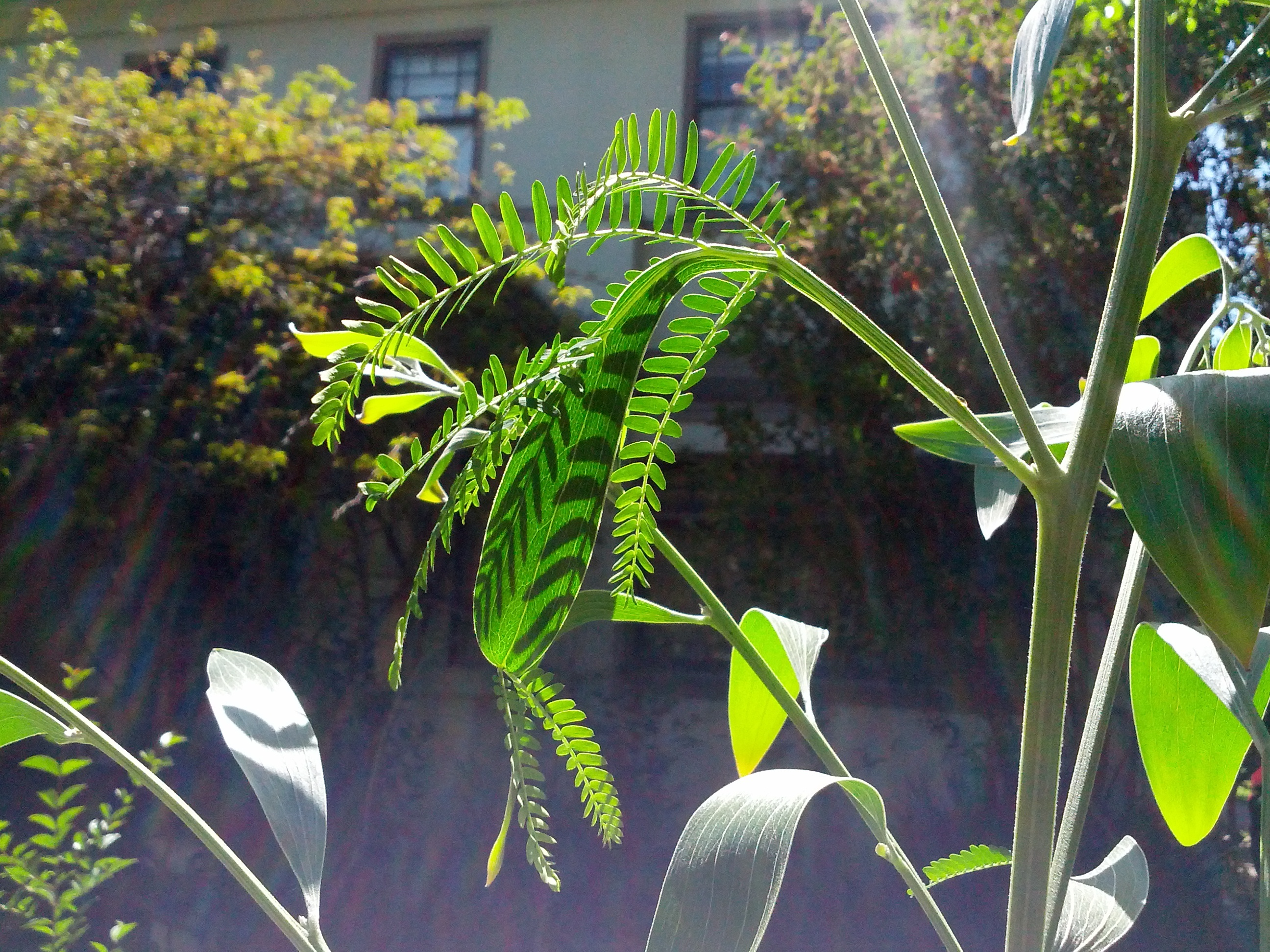 Acacia leaf-phyllode transition